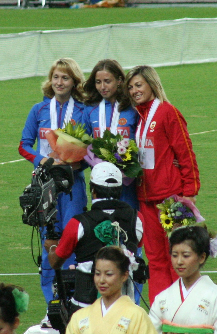 World Athletics Championships 2007 in Osaka - Victory ceremony for the women*s 20 km race walk: Tatyana Shemyakina, Olga Kaniskina, María Vasco